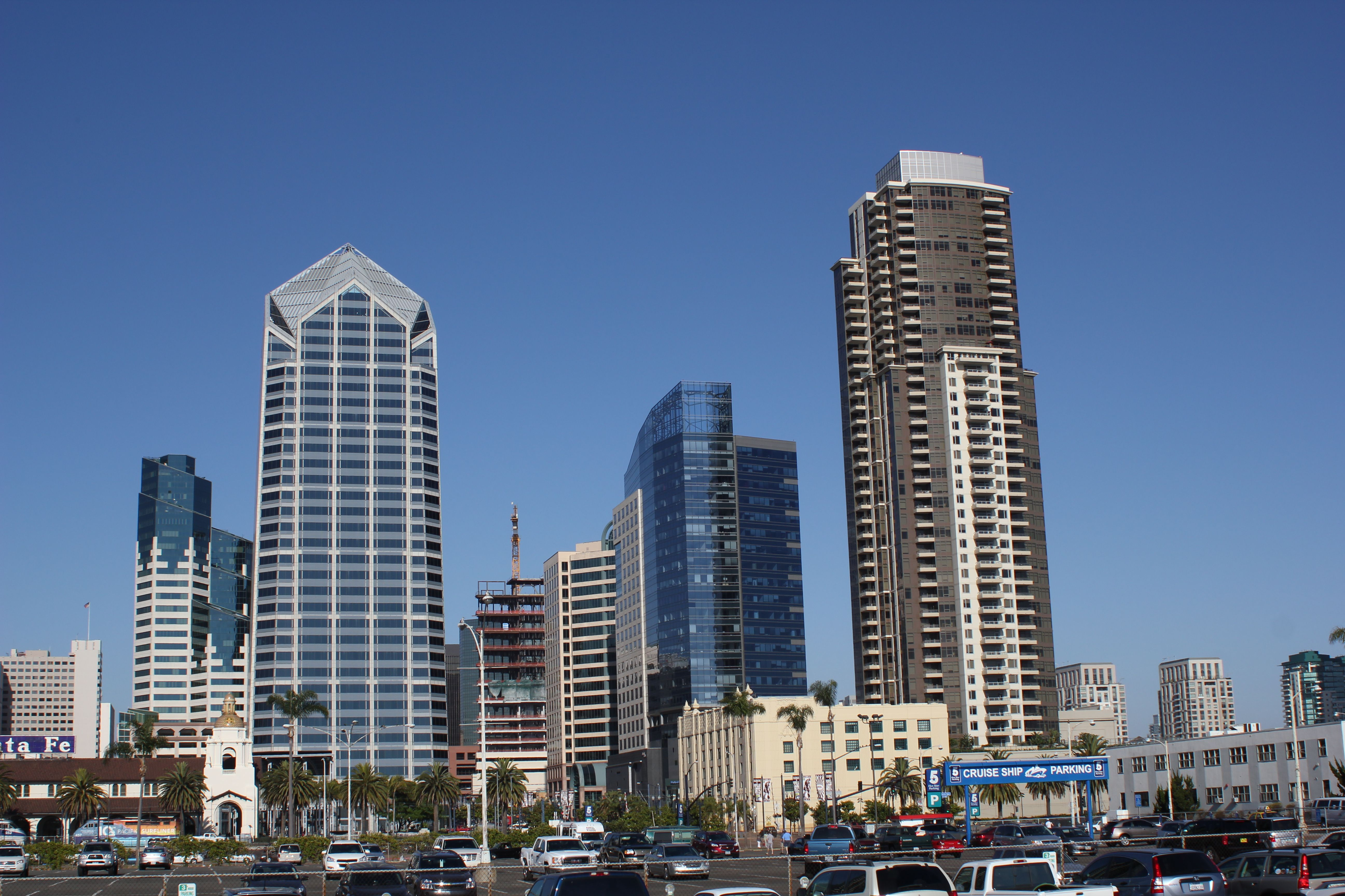 San Diego - California - Yacht Harbor with Hotels